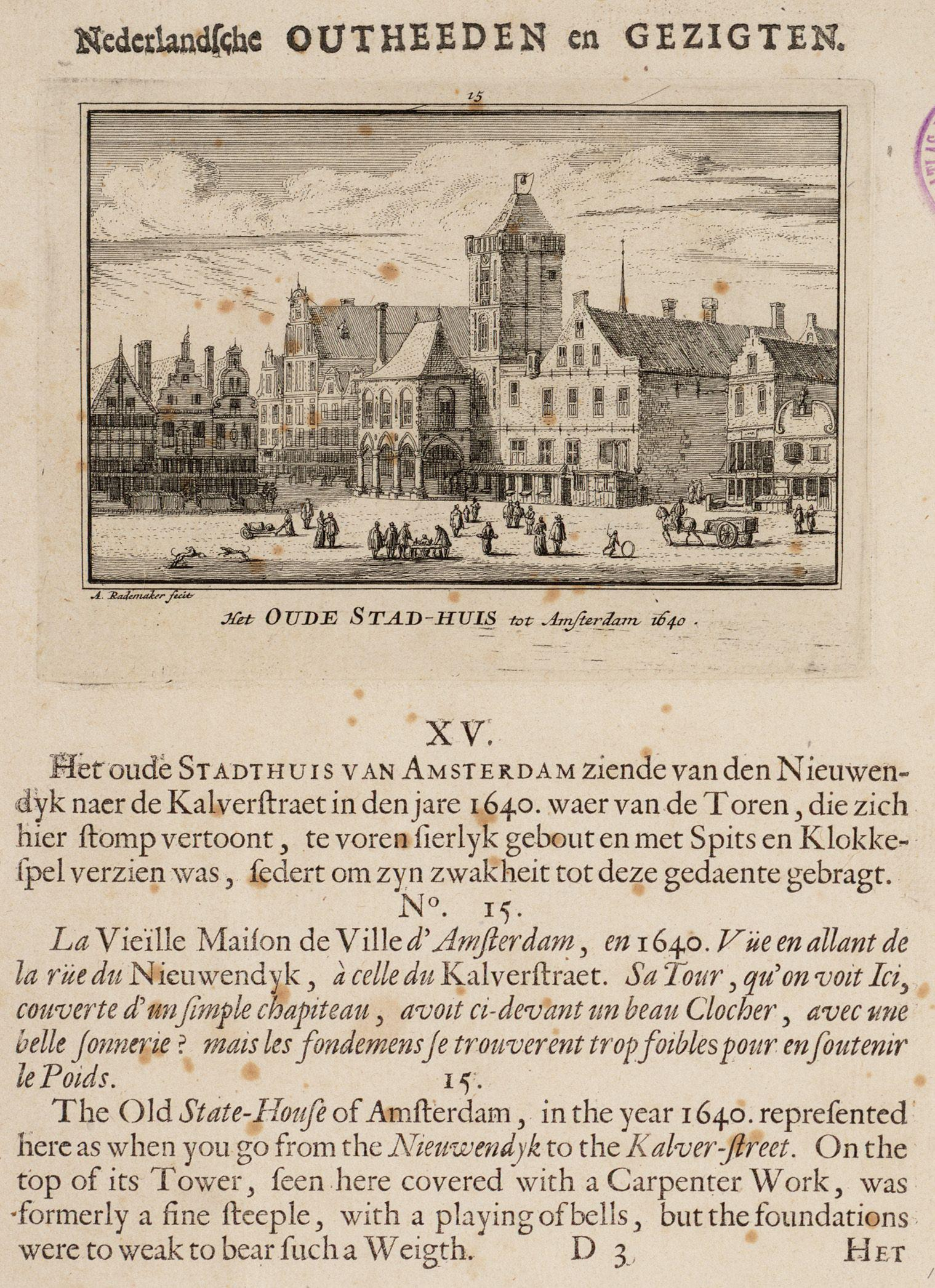 from this book